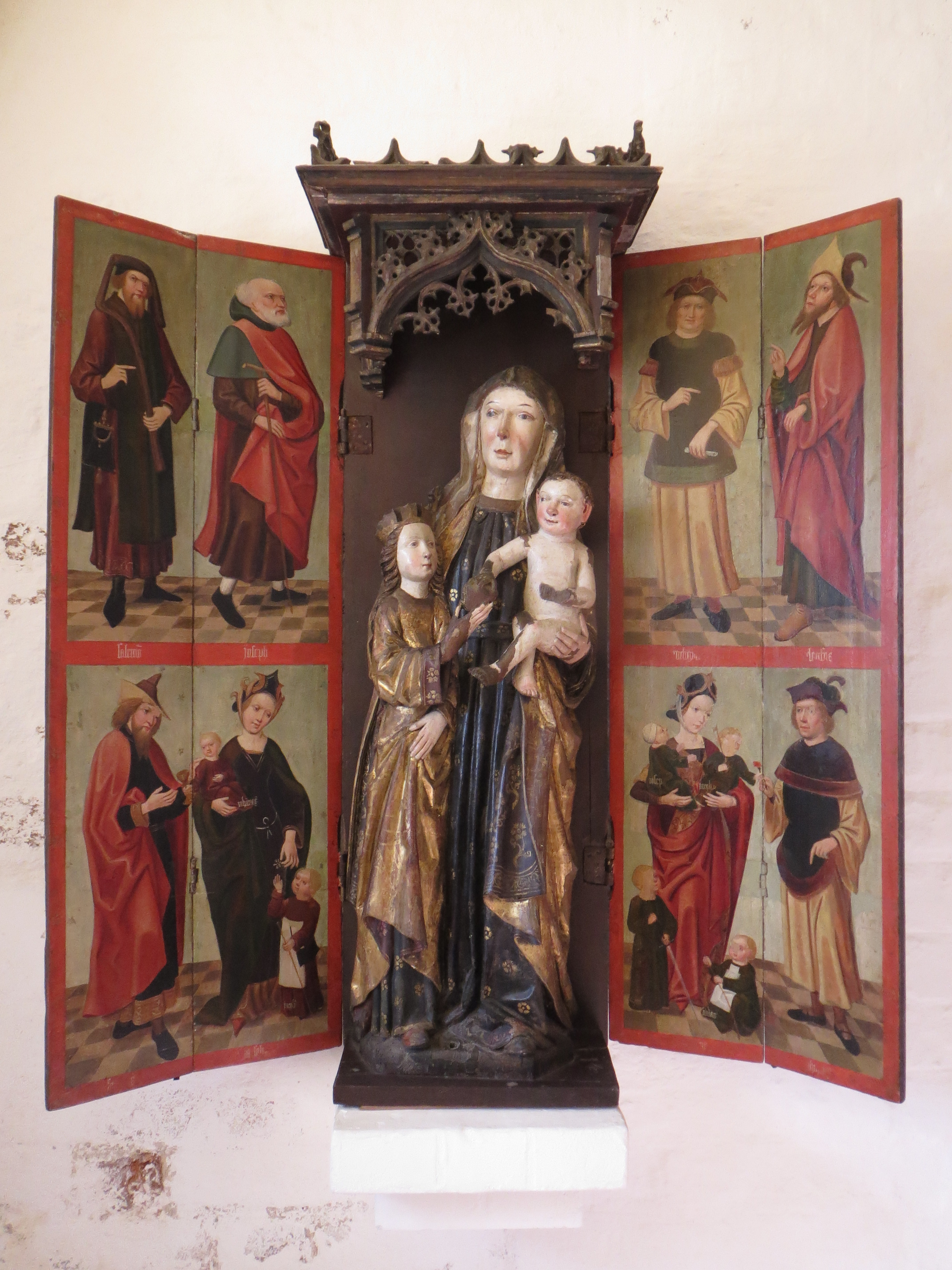 Shrine of St. Anne, H: 97 cm (Figur), B: 33 cm (Figur), T: 18 cm (Figur), H: 118 cm (Flügel), B: 20 cm, from Aegidien- or Michaelskonvent